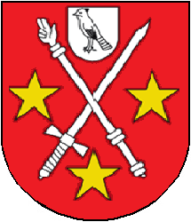 Coat of arms of Pleigne, Canton of Jura, Switzerland